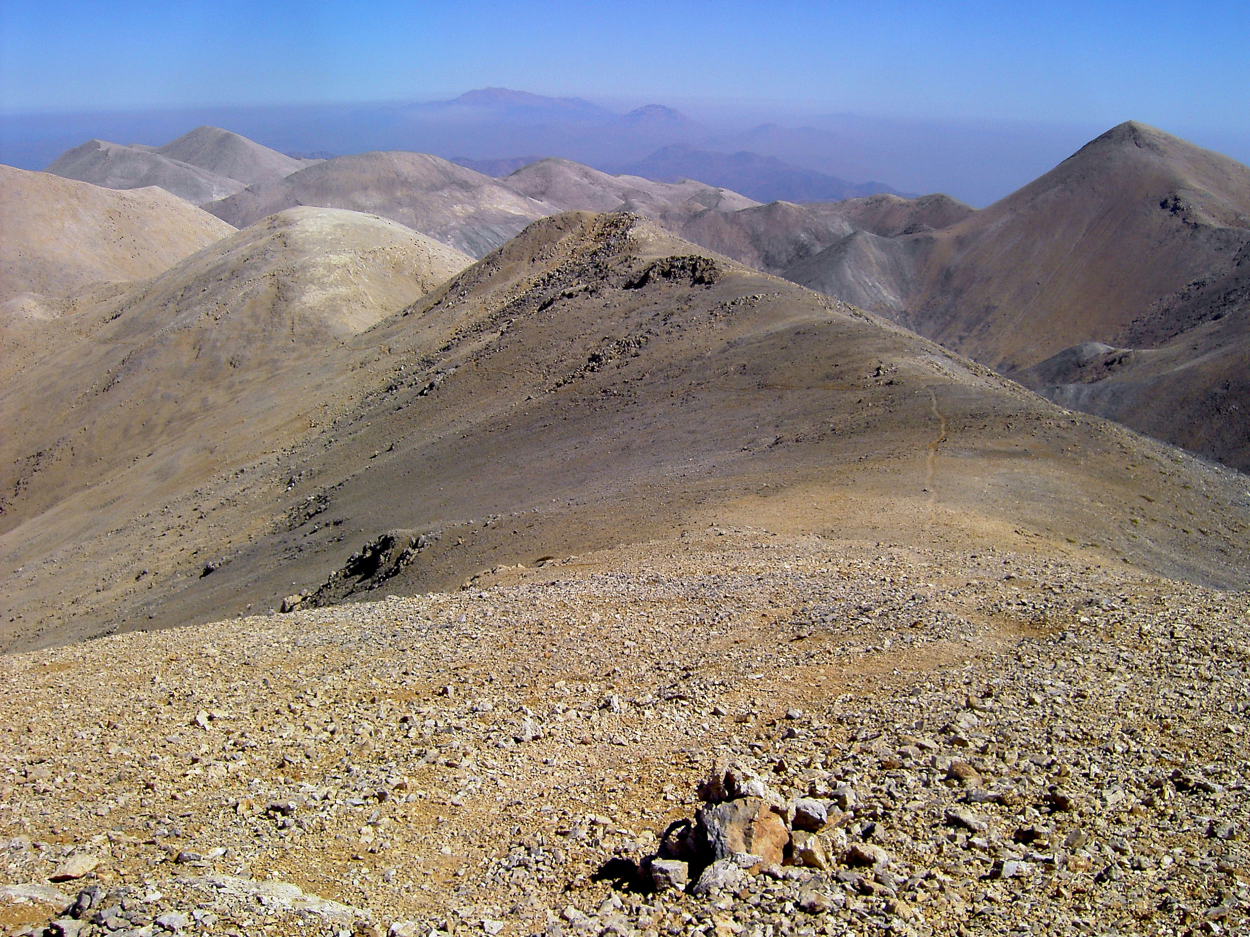 Levka Ori, Crete, view from Pachnes in eastern direction, in the background the Psiloritis (Ida)